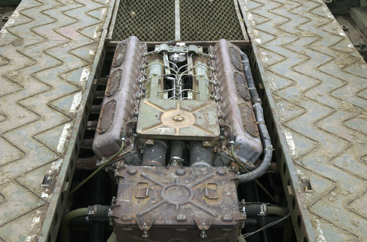 Diesel engine of the PTS Soviet amphibious vehicle (Hungary)